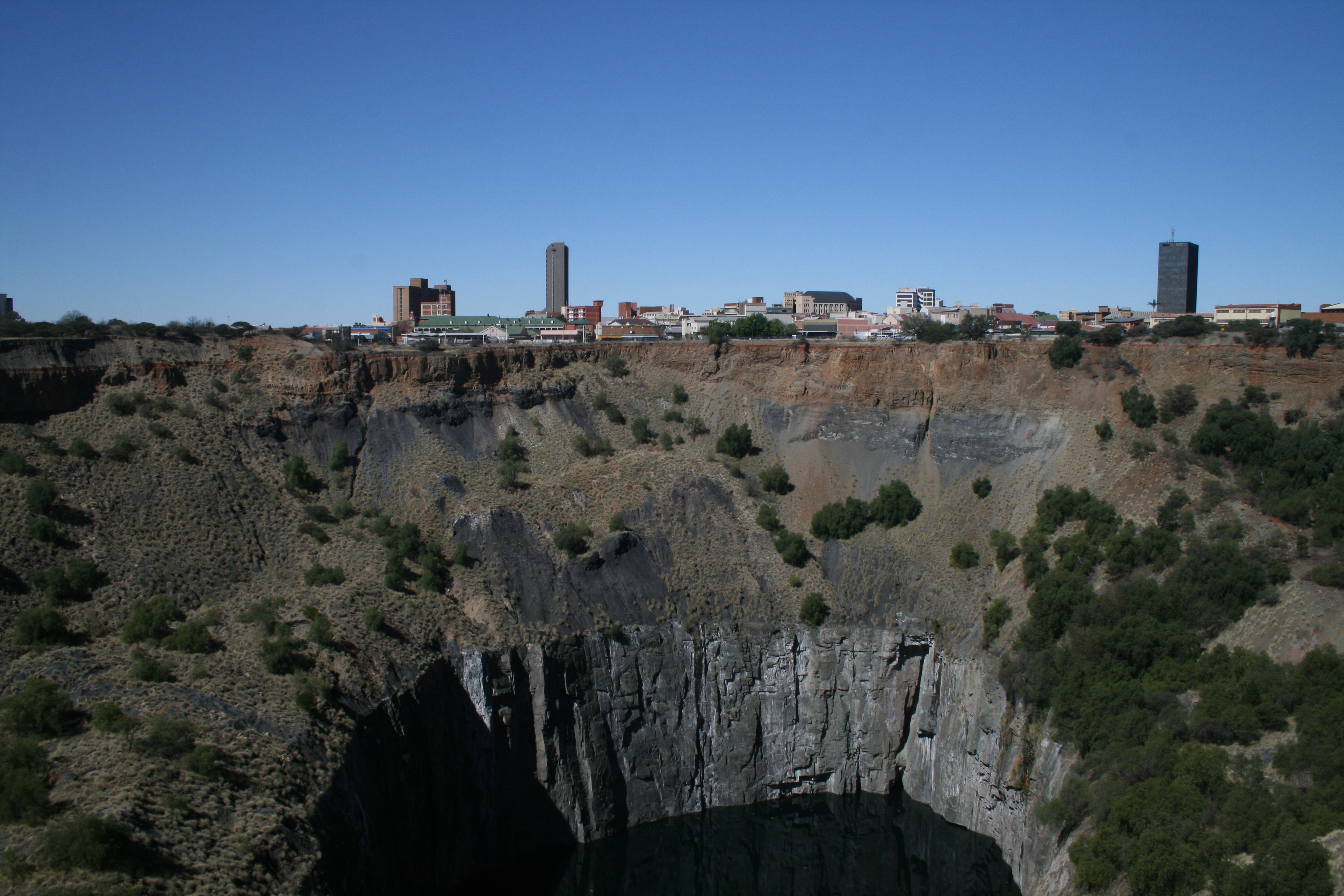 Kimberley, South Africa. Skyline as seen over the Big Hole.